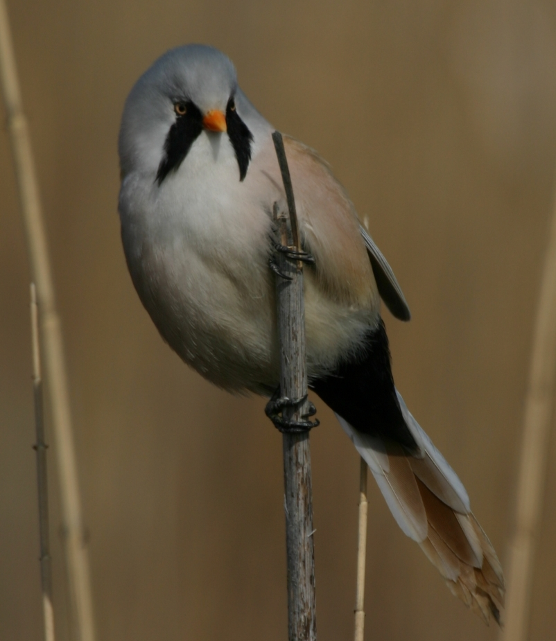 Bearded Reedling (Panurus biarmicus) (male), Mekszikópuszta, Hungary